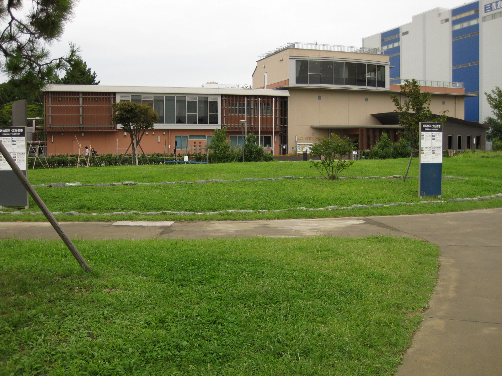 Oomori-Nori-Museum(Nori-no-FurusatoKan),photo-sep-2010,in-Oota-city,Tokyo,Japan